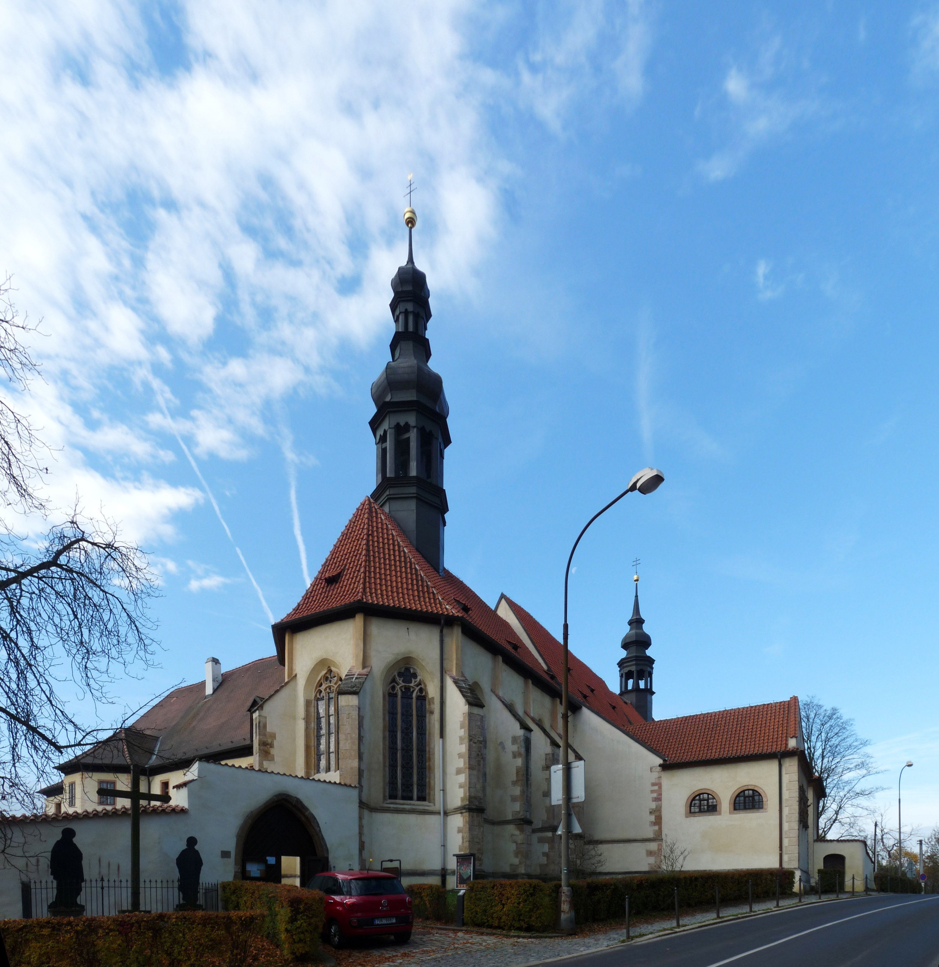 Franciscan monastery in the town of Kadaň, Chomutov District, Ústí nad Labem Region, Czech Republic.